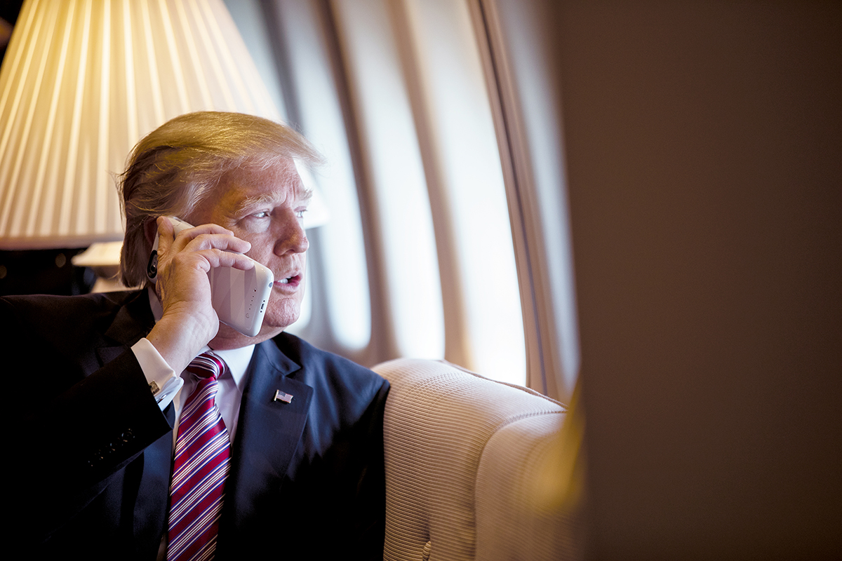 President Donald Trump talks on the phone aboard Air Force One during a flight to Philadelphia, Pennsylvania, to address a joint gathering of House and Senate Republicans, Thursday, January 26, 2017. This was the President’s first trip aboard Air Force One. (Official White House Photo by Shealah Craighead)